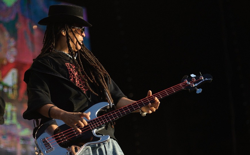 Richard Keith Lewis, Skunk Anansie